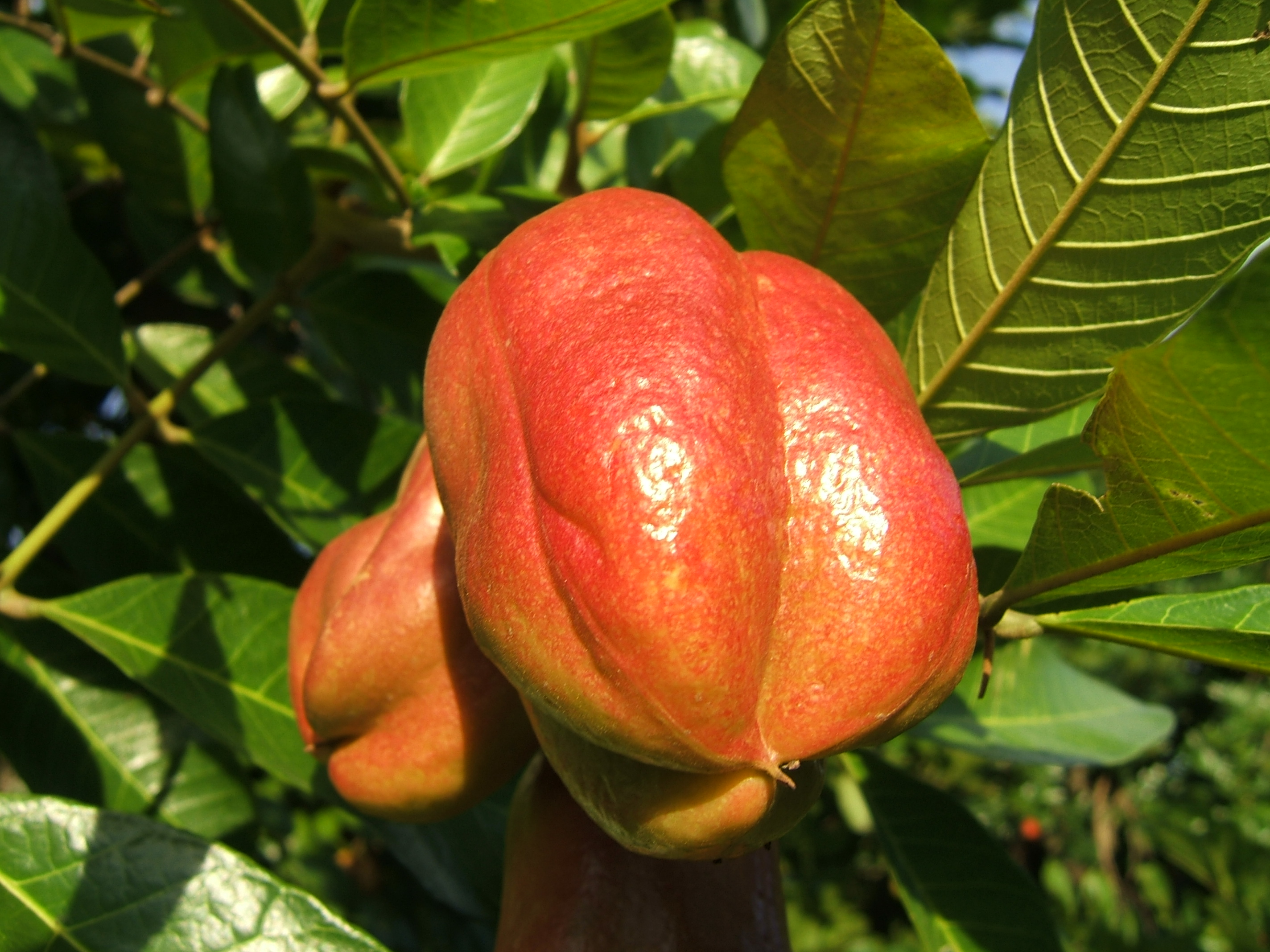 Photo of closed Ackee (Blighia sapida) fruit on tree